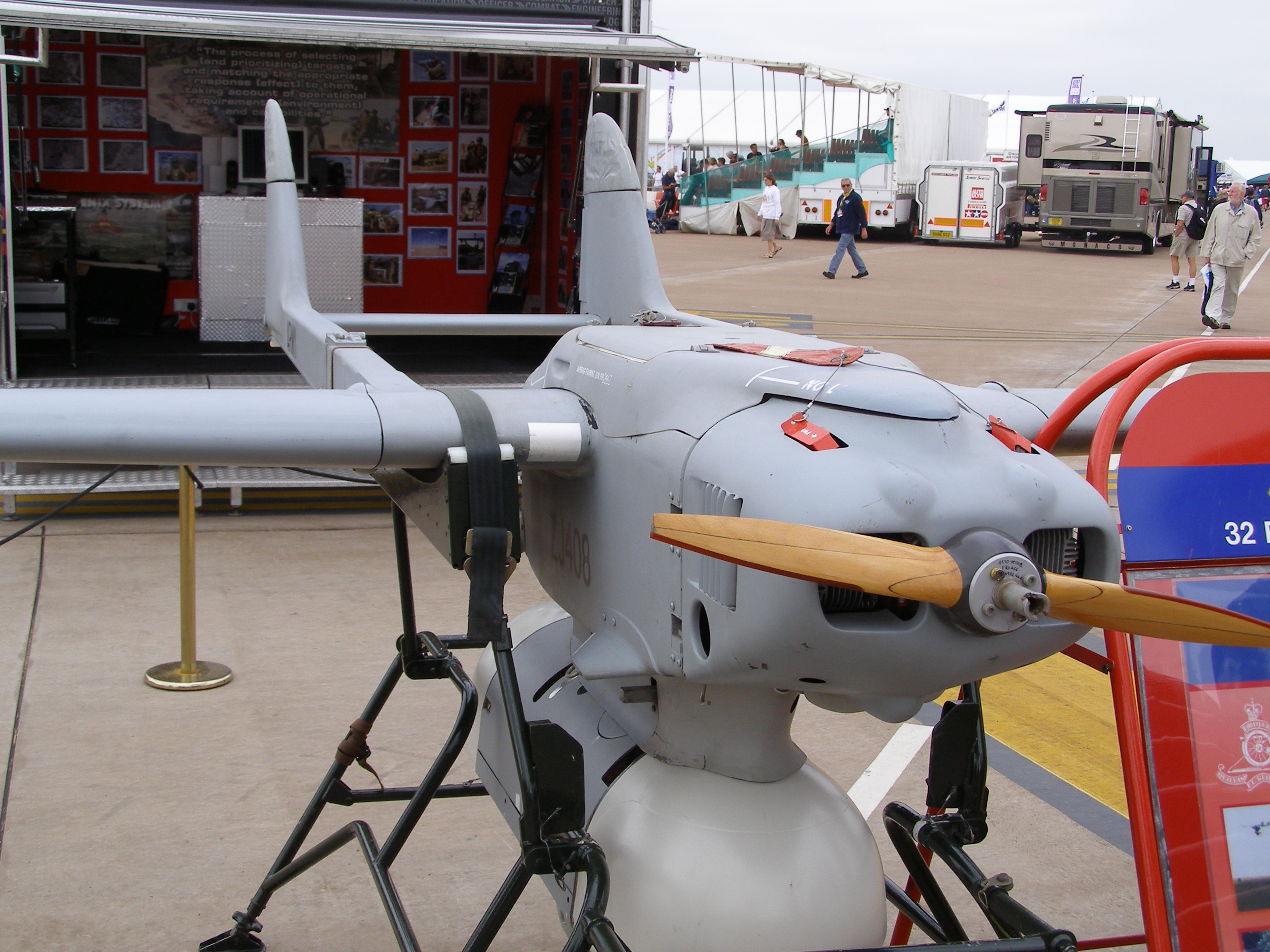 ZJ408 a BAE SYSTEMS Phoenix UAV of the British Army at Fairford